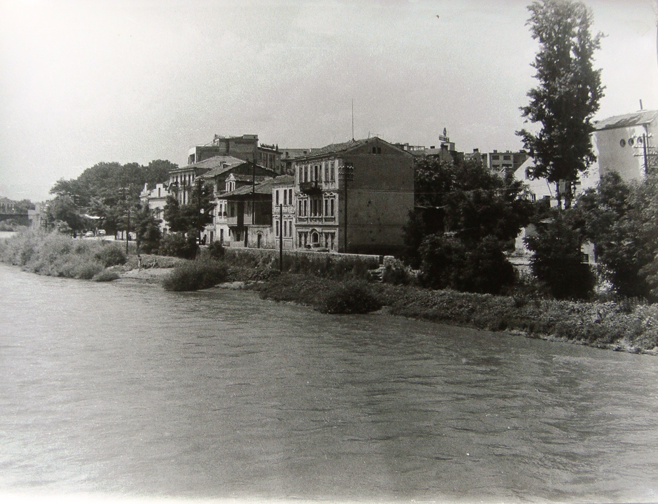 Quay Dimitar Vlahov, Wallachia neighborhood This media file is produced by Wikipedian in Residence in Category:Wikipedian in Residence at DARM in 2016.